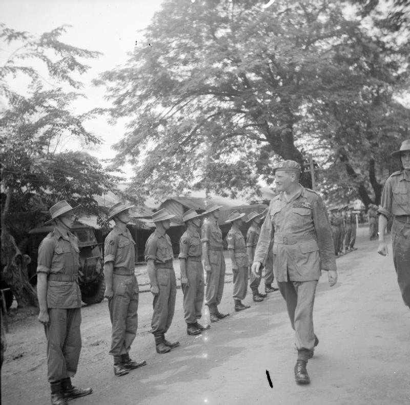 The British Army in Burma 1945 General Sir Claude Auchinleck, Commander-in-Chief India, inspecting troops, 1 August 1945.